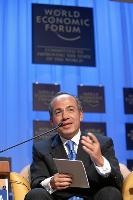 Felipe Calderón, President of Mexico, captured during the session Latin America Broadens Its Horizons at the 2007 Annual Meeting of the World Economic Forum in Davos, Switzerland.